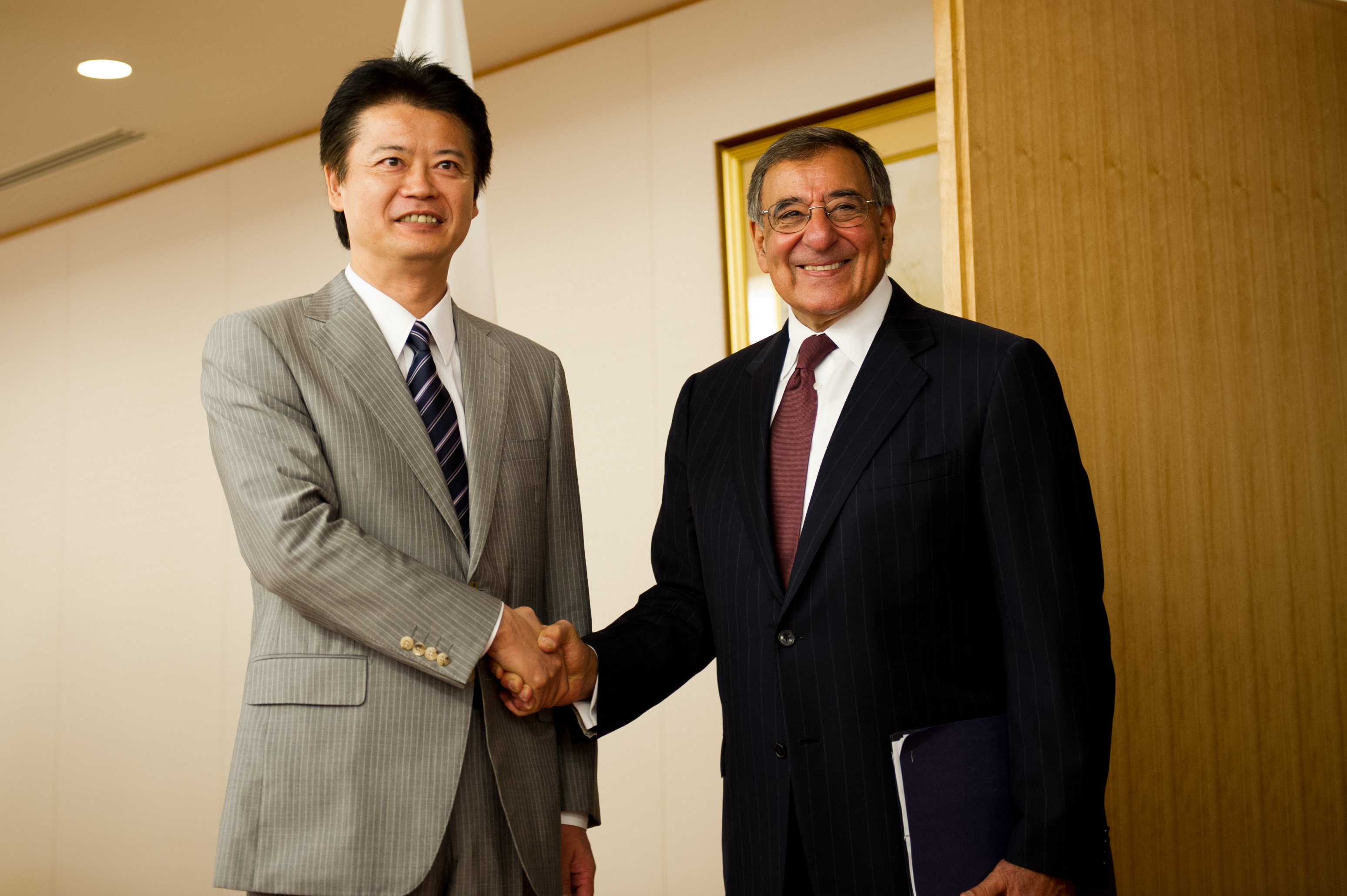 TOKYO, Japan (September 17, 2012) U.S. Secretary of Defense Leon Panetta greets Japan’s Foreign Minister Koichiro Gemba before their meeting [State Department photo by William Ng/Public Domain]